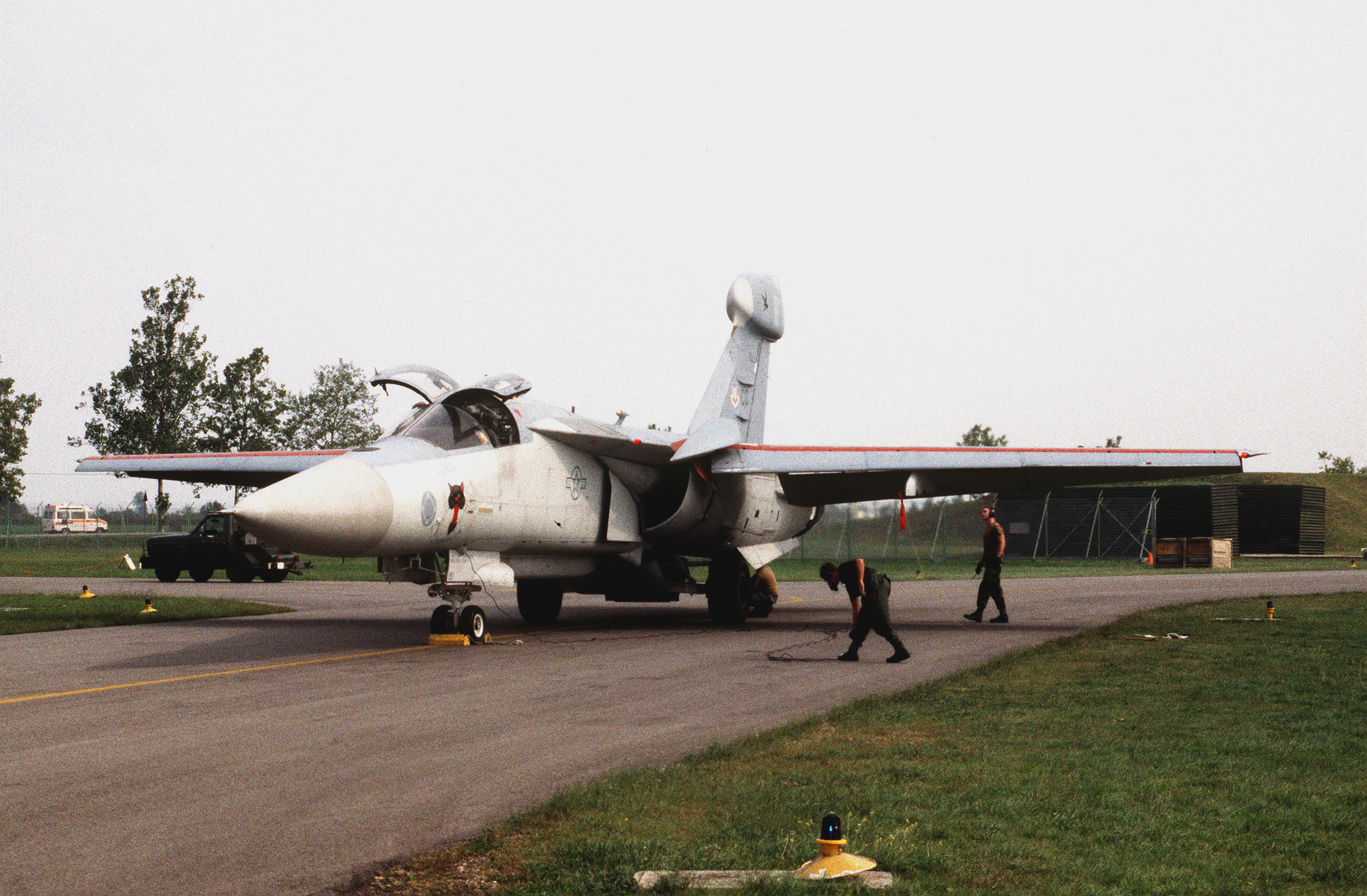 As the ground crew perform final pre-flight checks, the aircrew of this US Air Force EF-111A Raven prepares for a NATO airstrike against the Bosnian Serbs. The Raven is attached to the 429th Electronic Combat Squadron, 27th Fighter Wing, Cannon Air Force Base, NM. Location: AVIANO AIR BASE, PORDENONE ITALY (ITA)